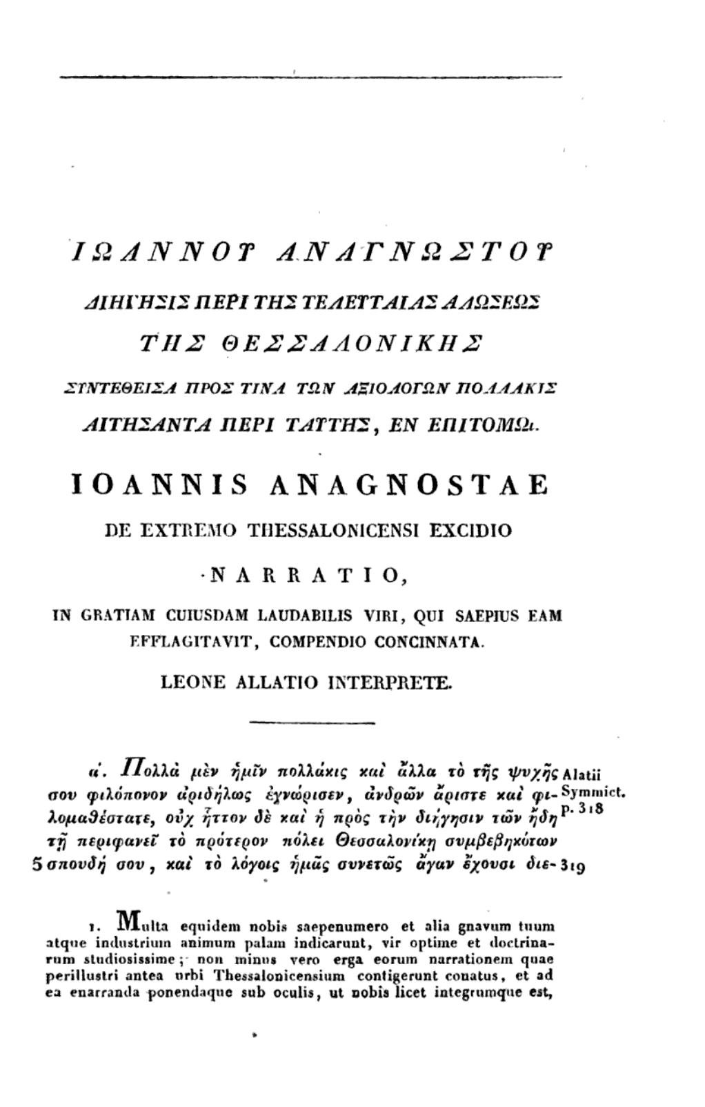 Bekker, Immanuel, ed.. Corpus Scriptorum Historiae Byzantinae. Georgius Phranzes. Ioannes Cananus. Ioannes Anagnostes. Bonnae, 1838. с. 483.